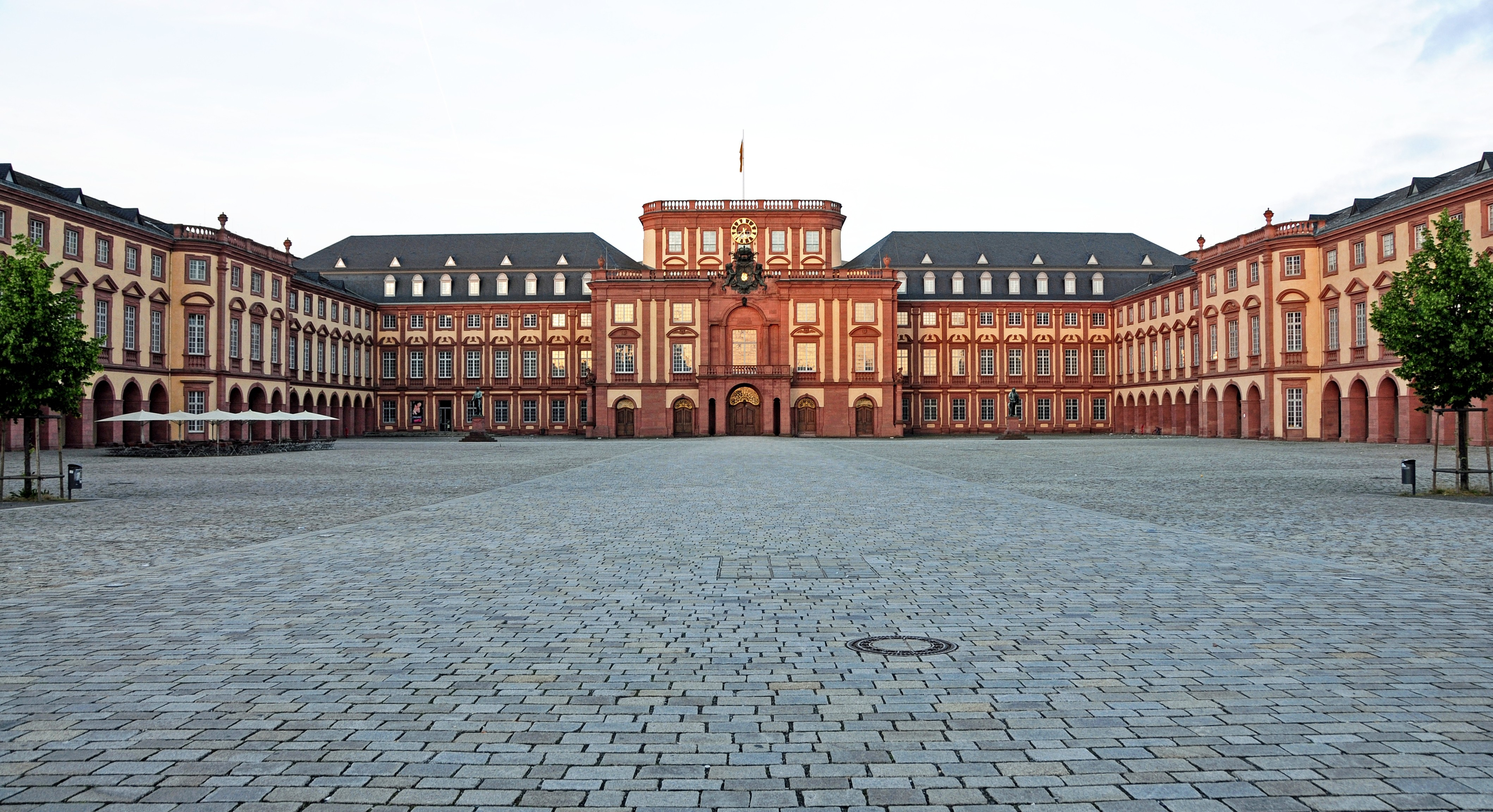 Mannheim Palace